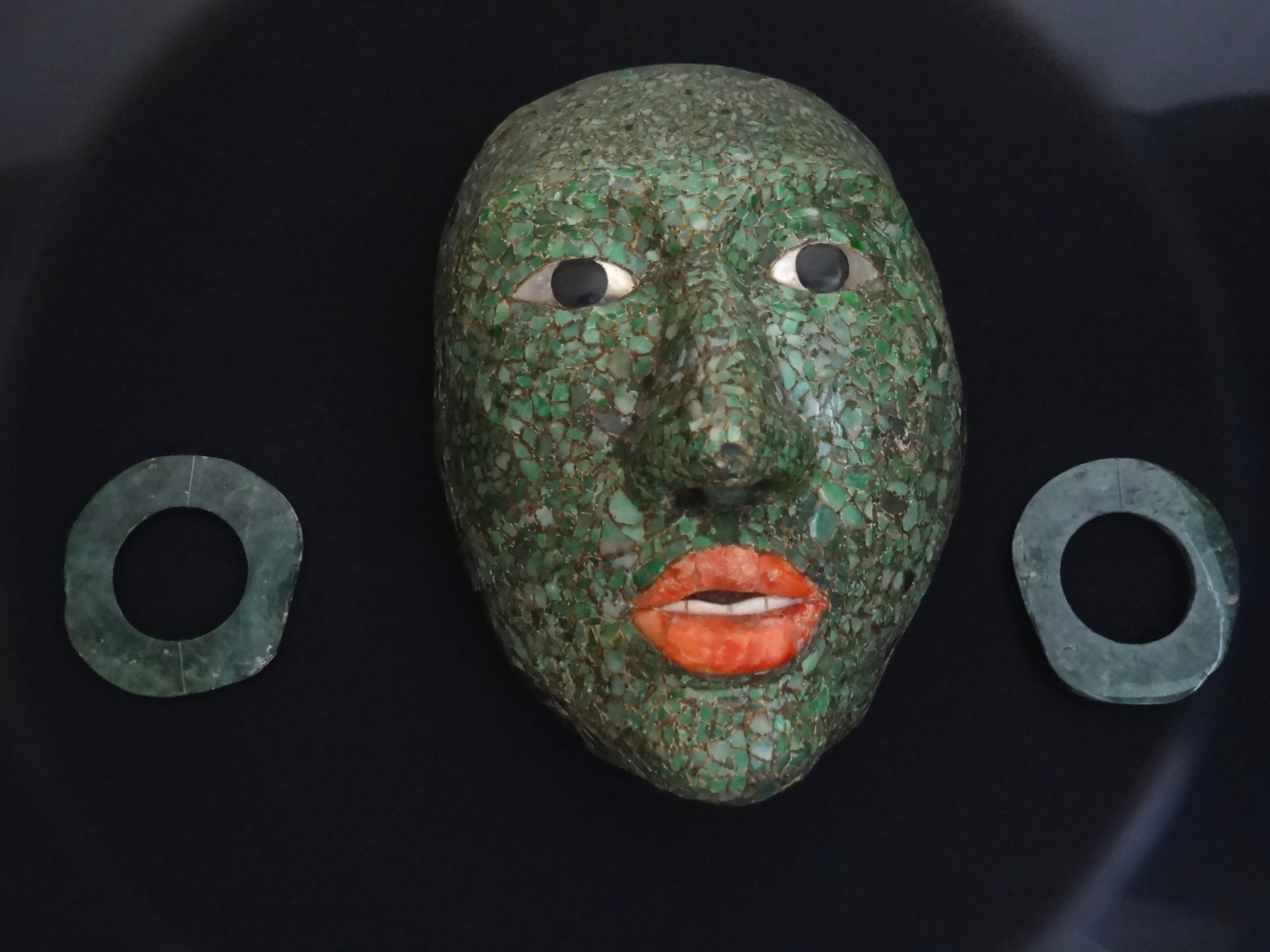 Maya Jade Mask and Earrings — Fort San Miguel Archaeological Museum. Located in San Francisco de Campeche, state of Campeche, México.